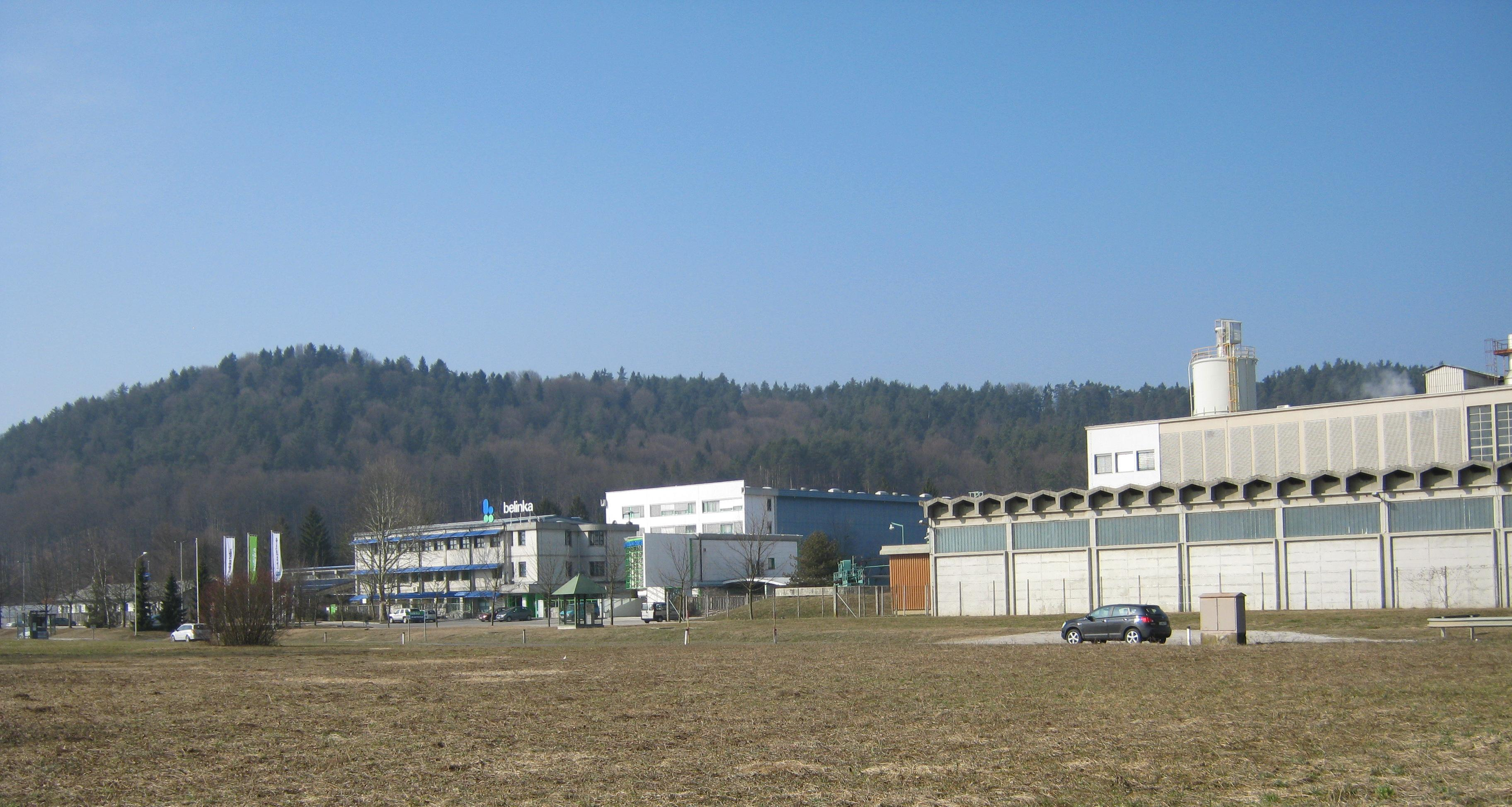 Belinka's factory in Podgorica near Ljubljana.